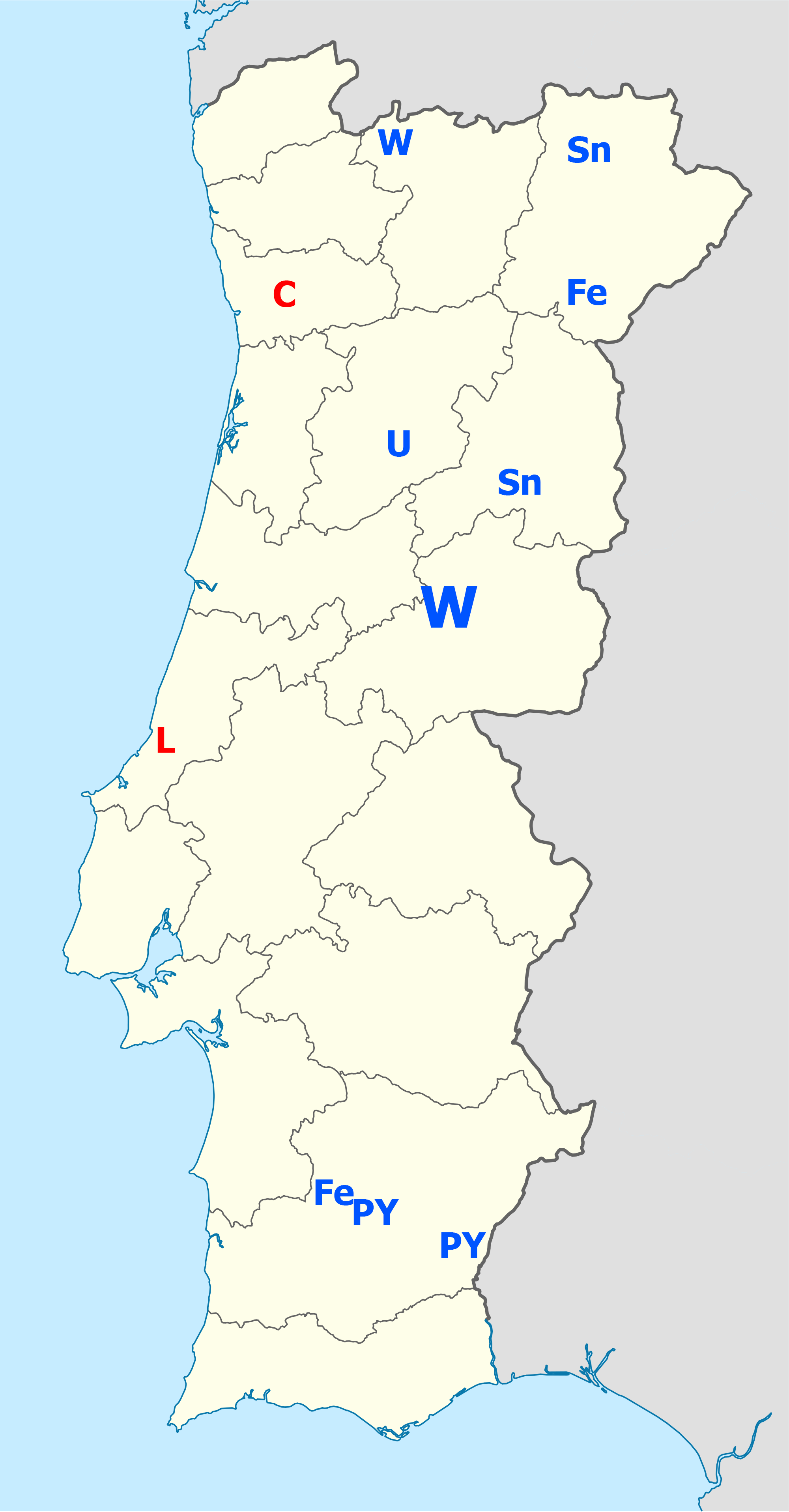 Map showing natural resources of Spain. Names in blue are metals (Fe, Sn, W, U) with PY for pyrite (FeS2), in red are fossil fuels (C — coal, L — lignite). Based on map "Spain and Portugal. Moscow: GUGK SSSR, 1987" (Испания и Португалия. М.: ГУГК СССР, 1987).